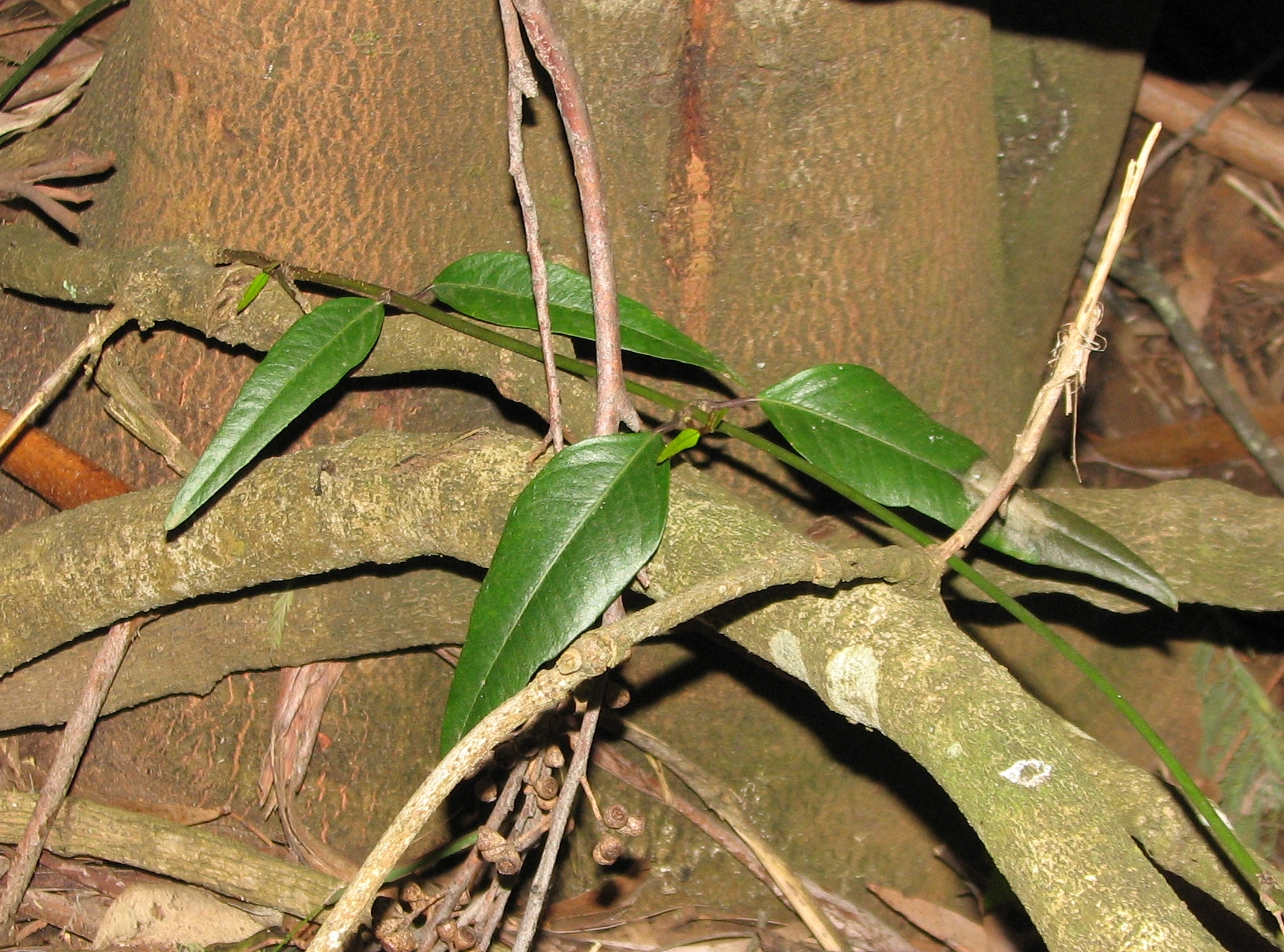 Parsonsia brownii Sherbrooke Forest, Victoria, Australia